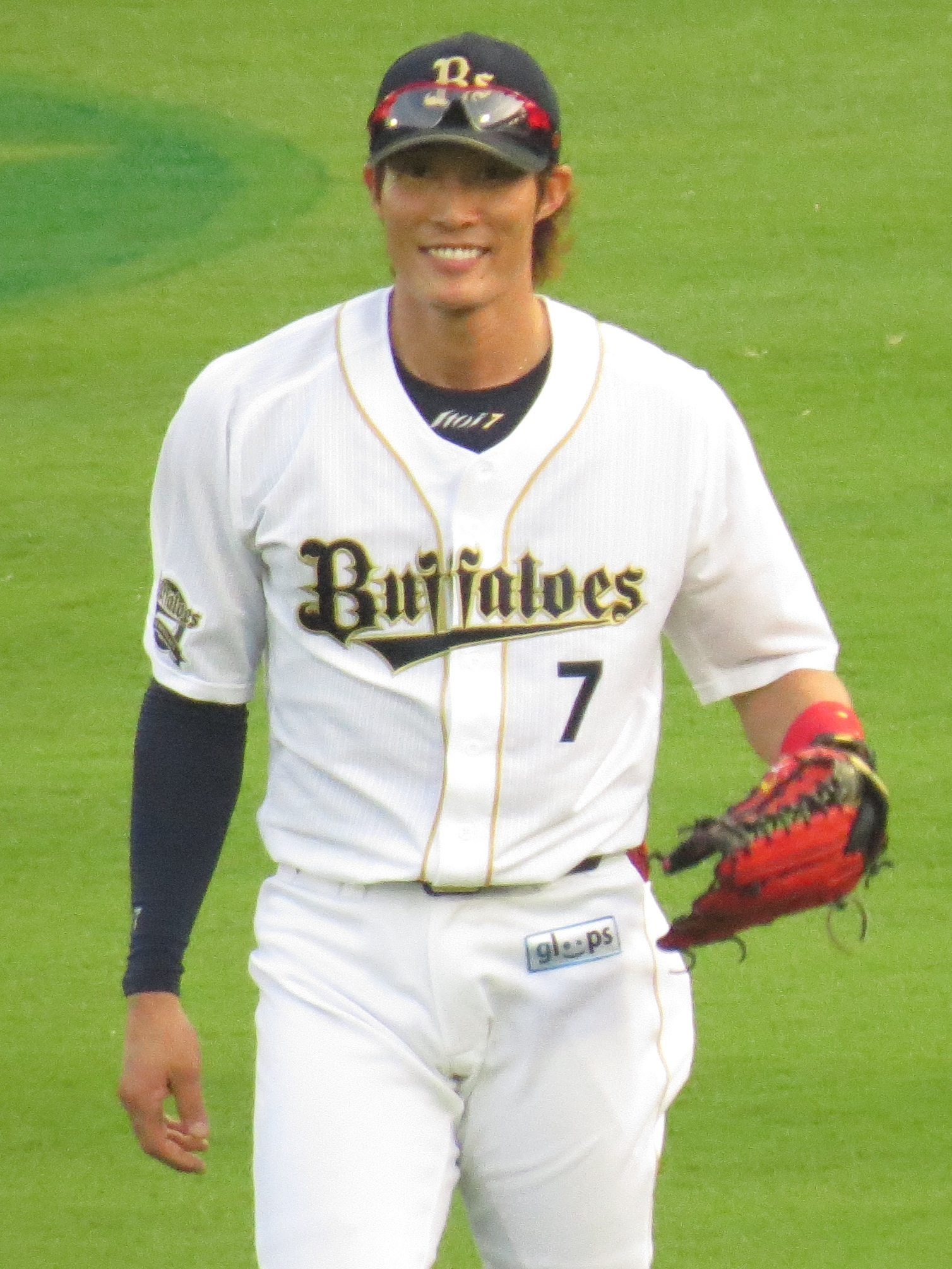 Yoshio Itoi, outfielder of the Orix Buffaloes, at Kobe Sports Park Baseball Stadium.